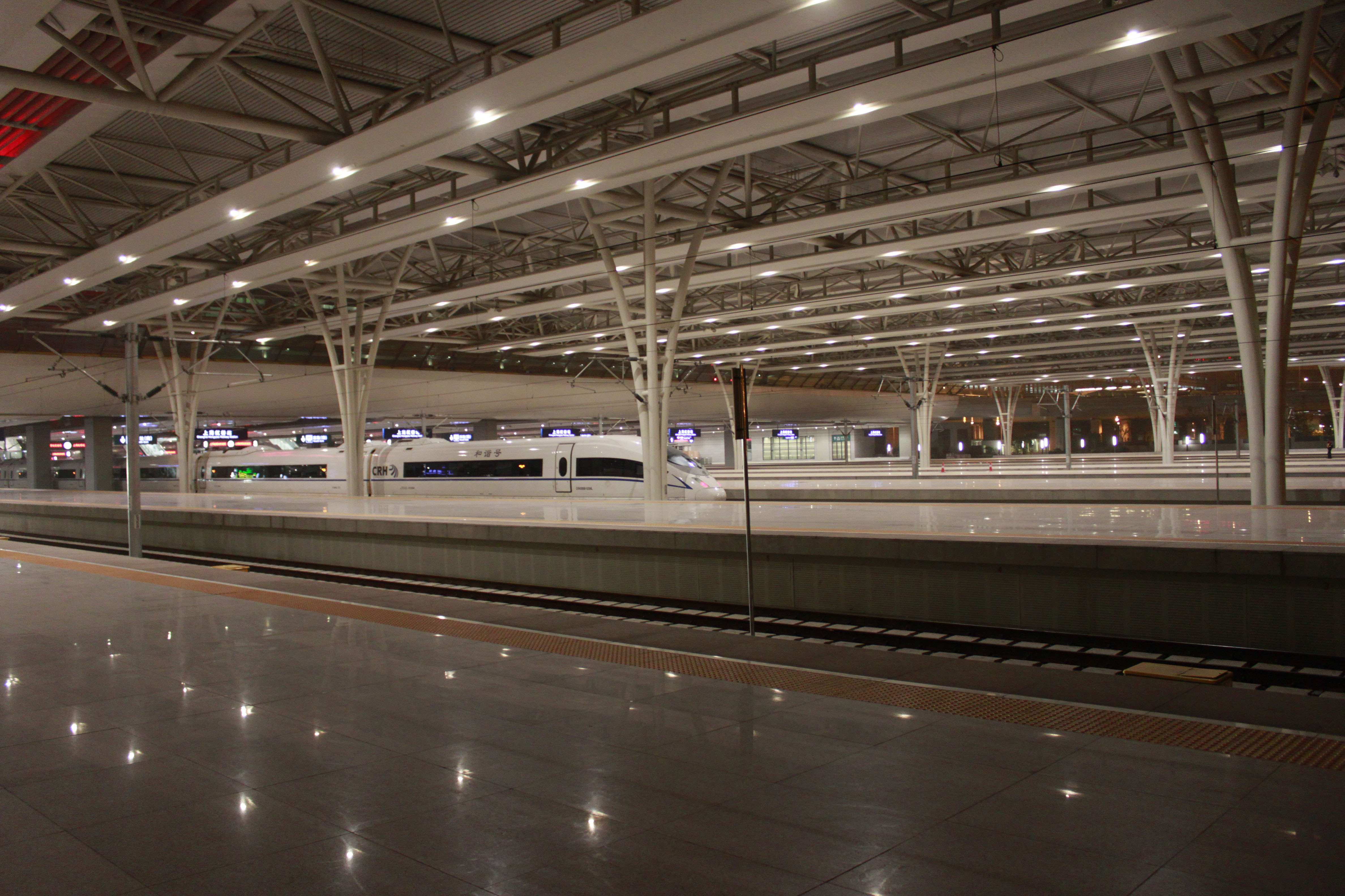 Shanghai Hongqiao Station Platforms(from Platform 19)